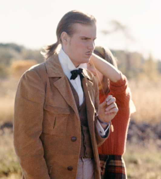 Editor and cartoonist Jacques Hurtubise in 1974 during the photo shoot for the photo story appearing in "l'Illustré" Supplementary technical data: digitization of a 35mm slide. Original camera: Nikon F with 43-86mm Nikkor lens